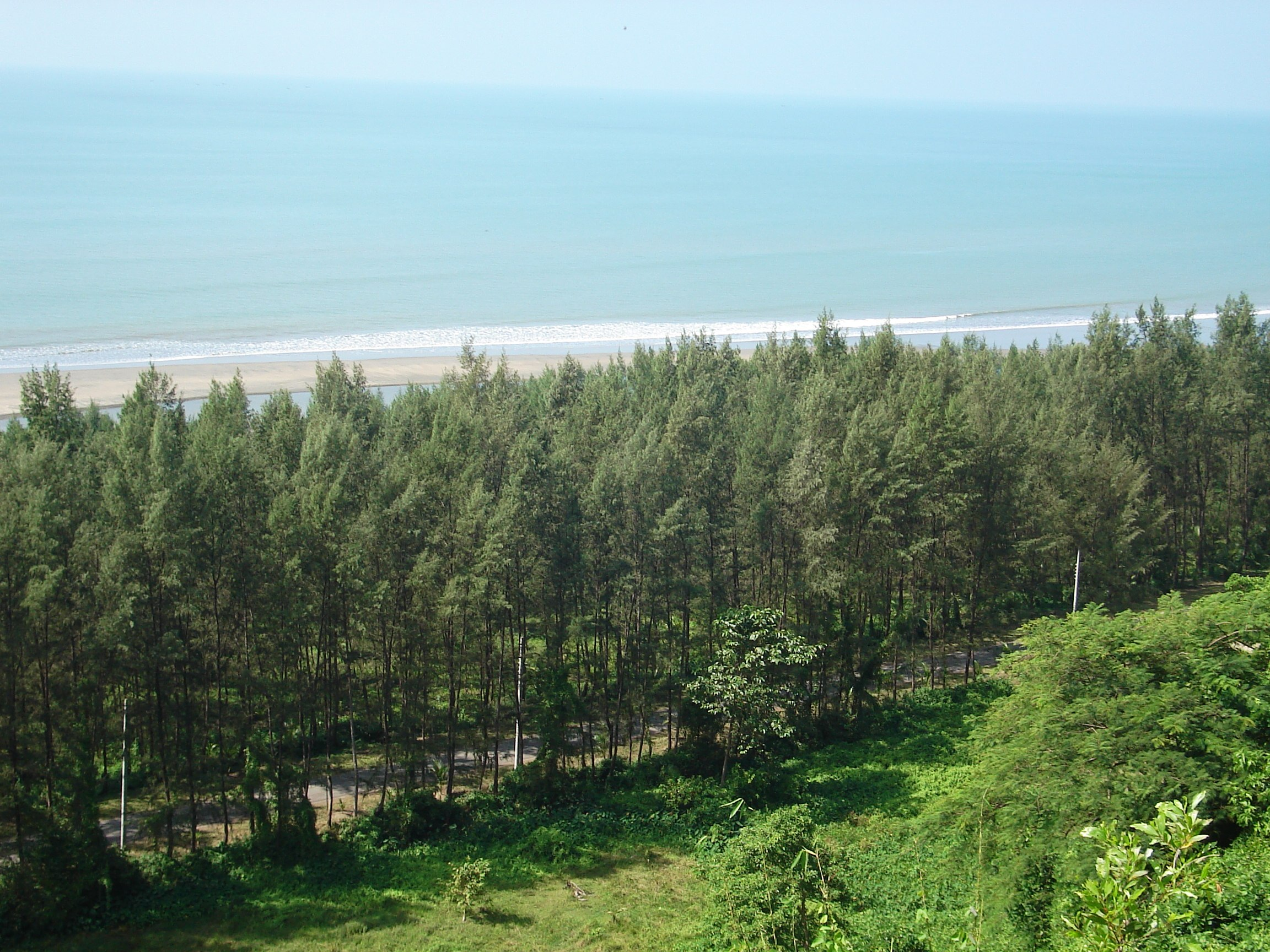 Himchari, Cox's Bazar, Bangladesh. The location is Himchari. It is situated in Bangladesh and the district of Cox's Bazar. It is 16 KM far from Cox's Bazar main Beach.